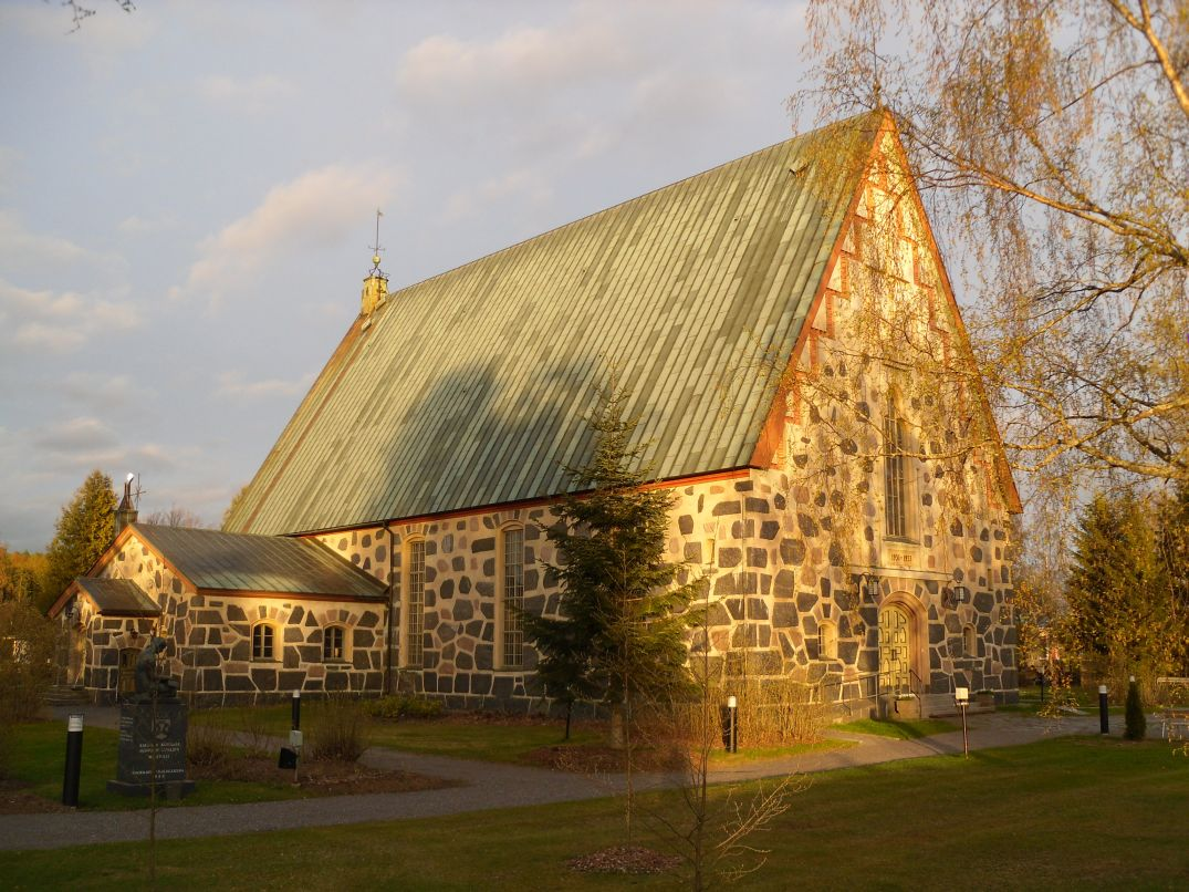 Noormarkku Church in Noormarkku, Pori, Finland.